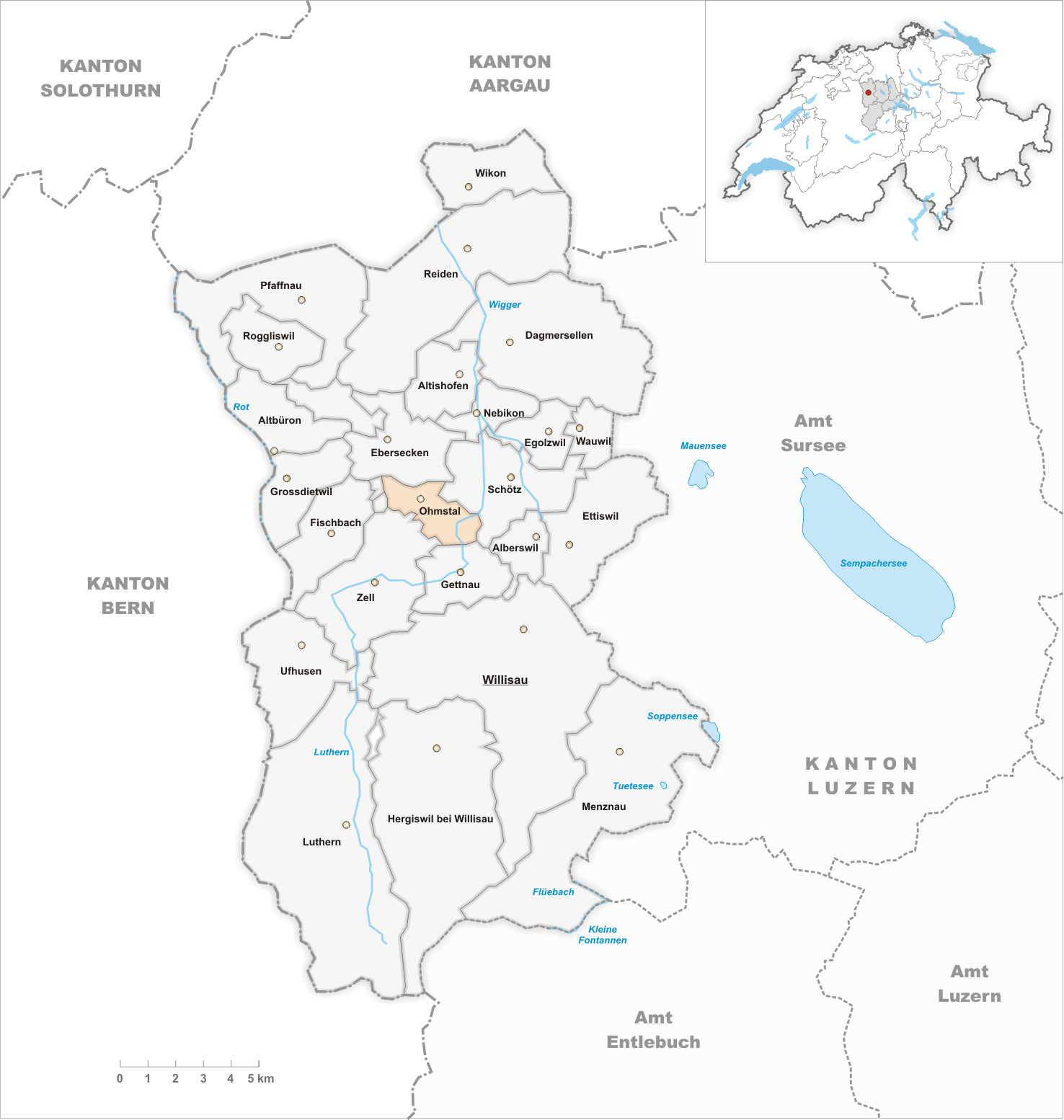 Municipality Ohmstal